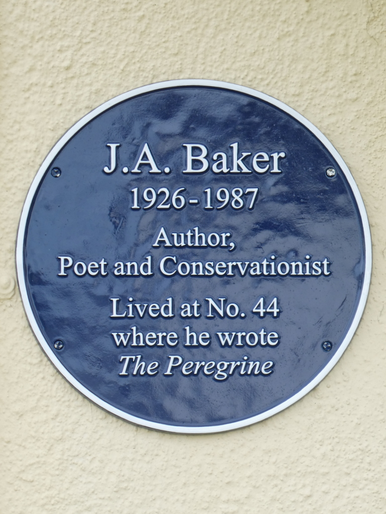 Plaque outside 44 Stansted Close, Chelmsford where J A Baker wrote The Peregrine